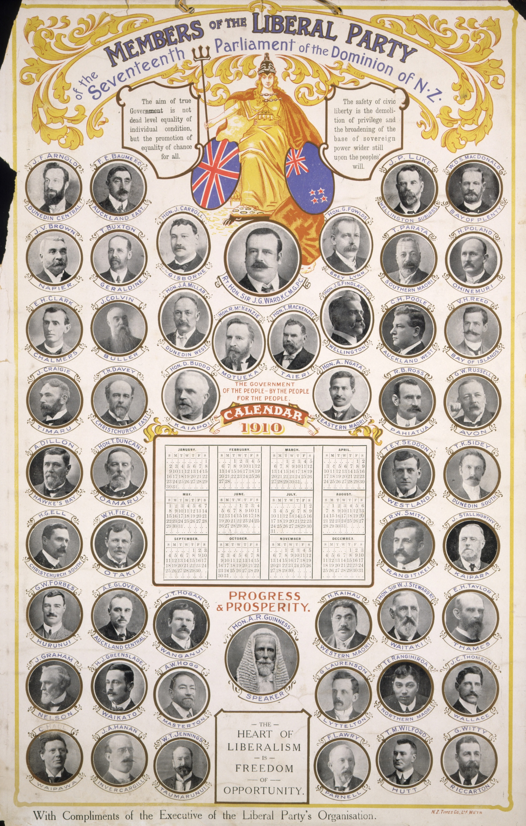 Shows portraits of 52 members of Parliament, around a calendar for 1910. At top is an allegorical female figure (Britannia or Zealandia) with shields showing New Zealand and British flags. Joseph George Ward (1856-1930), Arthur Robert Guinness (1846-1913), James Frederick Arnold (1859-1929), Frederick Ehrenfried Baume (1862-1910), John Pearce Luke (1858-1931), William Donald Stuart MacDonald (1862-1920), John Vigor Brown (1854-1942), Thomas Buxton (1863-1939), James Carroll (1857-1926), George Fowlds (1860-1934), Tame Haereroa Parata (1832/1838?-1917), Hugh Poland (1868-1938), Edward Henry Clark (1870-1932), James Colvin (1844-1919), John Andrew Millar (1855-1915), Roderick McKenzie (1852-1934), Thomas Noble Mackenzie (1853-1930), John George Findlay (1862-1929), Charles Henry Poole (1874-1941), Vernon Herbert Reed (1871-1963), James Craigie (1851-1935), Thomas Henry Davey (1856-1934), David Buddo (1853-1937), Apirana Turupa Ngata (1874-1950), Robert Beatson Ross (1867-1949), George Warren Russell (1854-1937), Alfred Dillon (1847-1915), Thomas Young Duncan (1836-1914), Thomas Edward Youd Seddon (1884-1972), Thomas Kay Sidey (1863-1933), Harry Ell (1862-1934), William Hughes Field (1861-1944), Robert William Smith (1871-1958), John Stallworthy (1854-1923), George William Forbes (1868-1947), Albert Edward Glover (1849-1941), James Thomas Hogan (1874-1953), Henare Kaihau (1855-1920), William Jukes Steward (1841-1912), Edmund Harvey Taylor (fl 1909-1911), John Graham (1843-1926), Henry James Greenslade (1867-1945), Alexander Wilson Hogg (1841-1920), George Laurenson (1857-1913), Peter Henry Buck (1877?-1951), John Charles Thomson (1866-1934), Charles Hall (1843-1937), Josiah Alfred Hanan (1868-1954), William Thomas Jennings (1854-1923), Frank Lawry (1844-1921), Thomas Mason Wilford (1870-1939), George Witty (1856-1941)